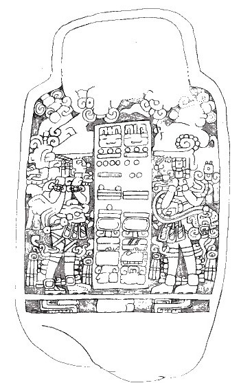 Stela 5 from Abaj Takalik Taken from Japanese Wikipedia: [1] Thanks to Siyajkak ! Note: the original was flipped horizontally (or mirrored). See this drawing Other versions: File:Takalik Abaj Stela 5.JPG, a photo of the stela